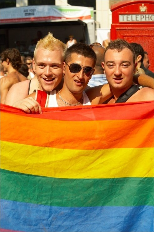 Happy participators of the London Europride 2006, holding the rainbow flag.